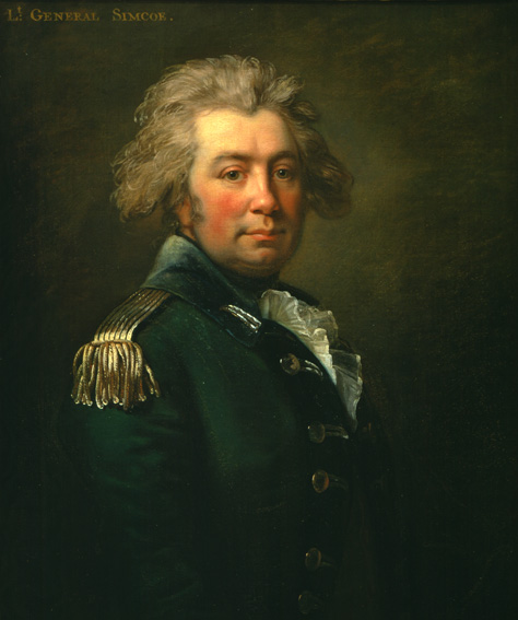 Sir John Graves Simcoe, first Lieutenant-Governor of Upper Canada and founder of the European settlement at Toronto. Simcoe is shown in the uniform of the Queen's Rangers, a regiment he led during the American Revolution, and which he re-established in Upper Canada in 1792.